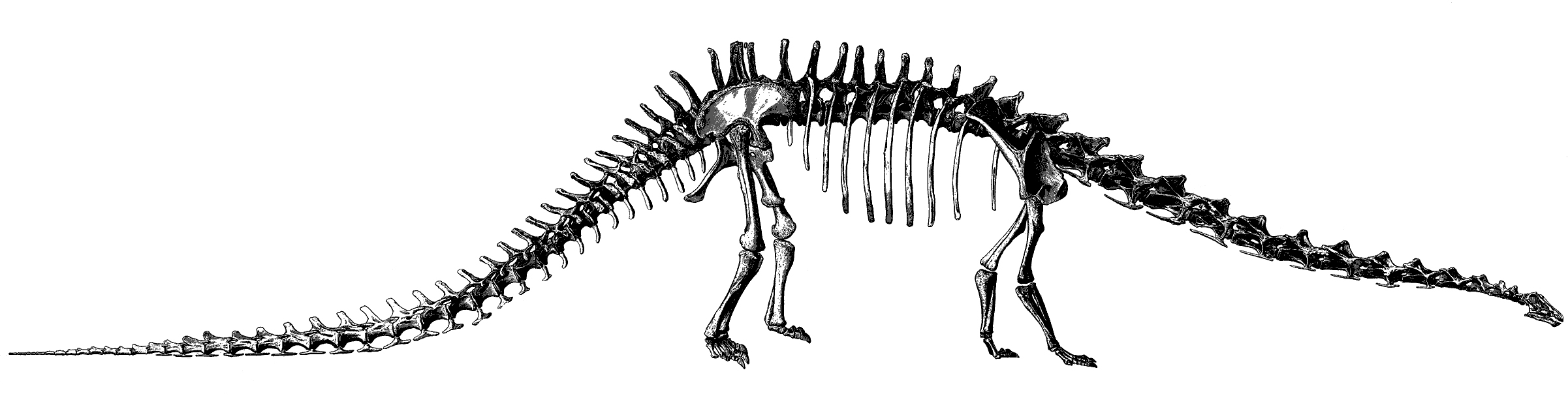 Hatcher's restoration of a Diplodocus carnegii skeleton from his 1901 description.